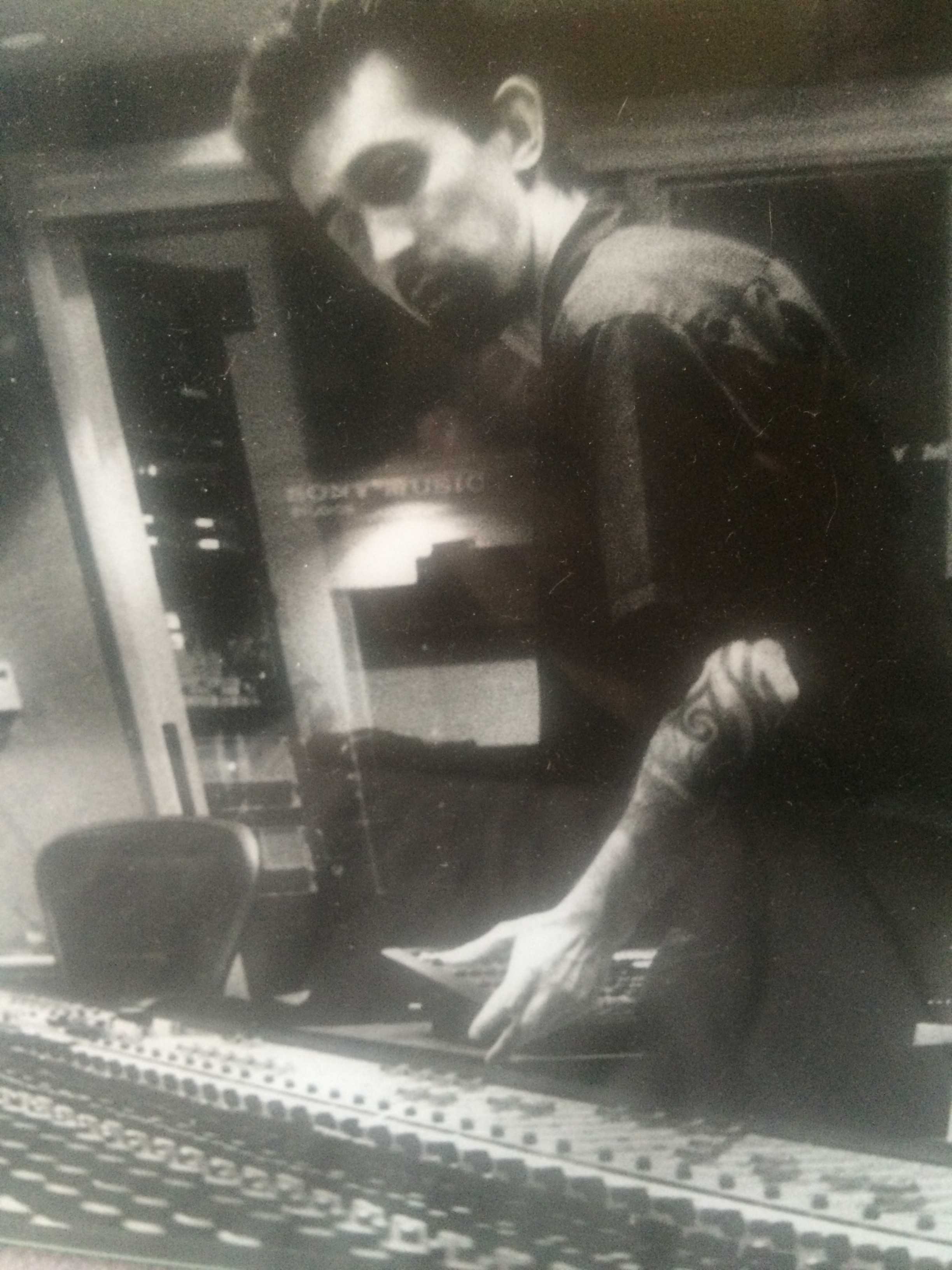 Alex reverberi, Sony Music Studios